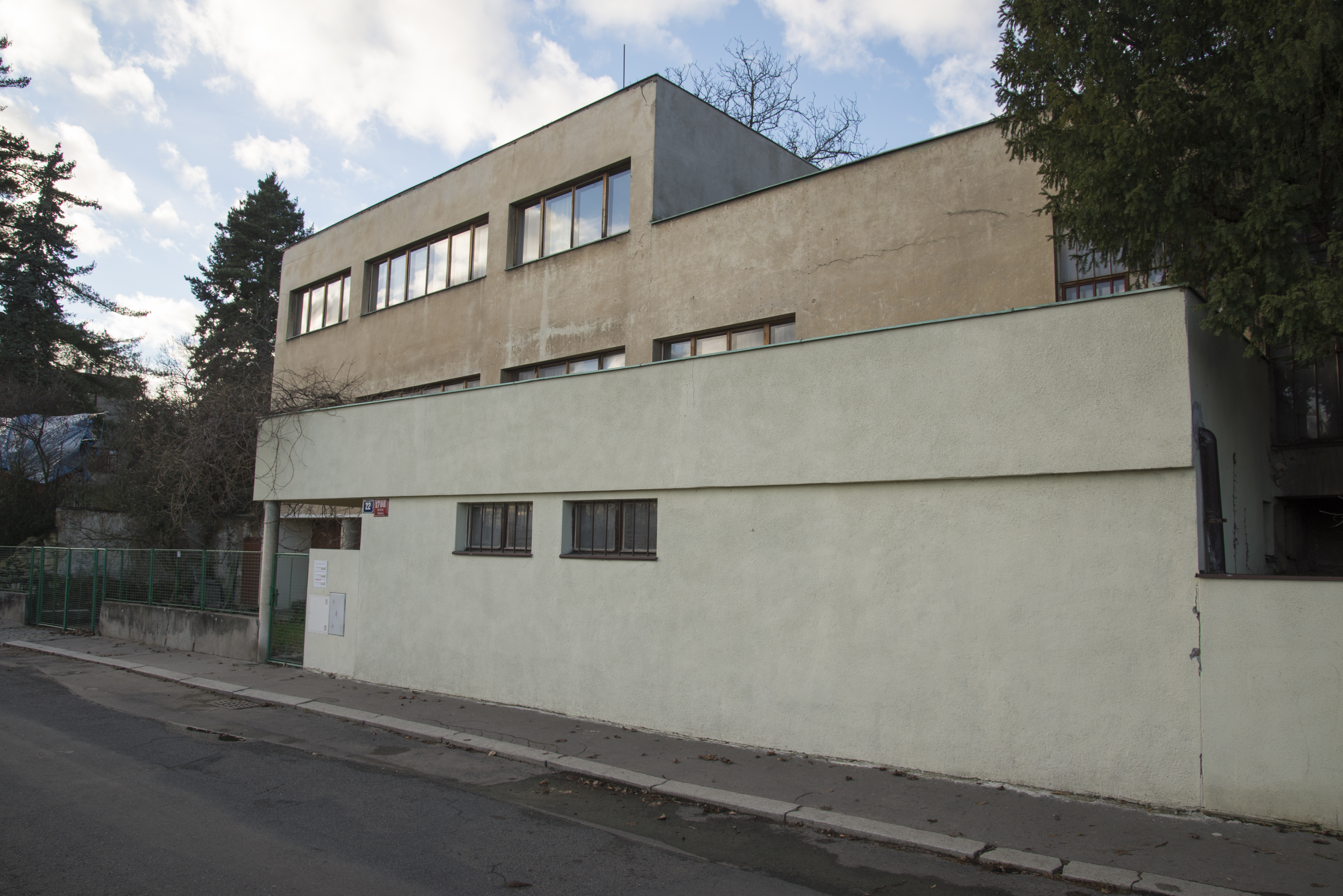 Osada Baba (Baba Functionalism colony in Prague) - House Kytlica